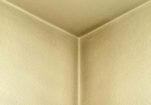 Dust deposition by thermophoresis. Dust pattern in the Corner of walls.